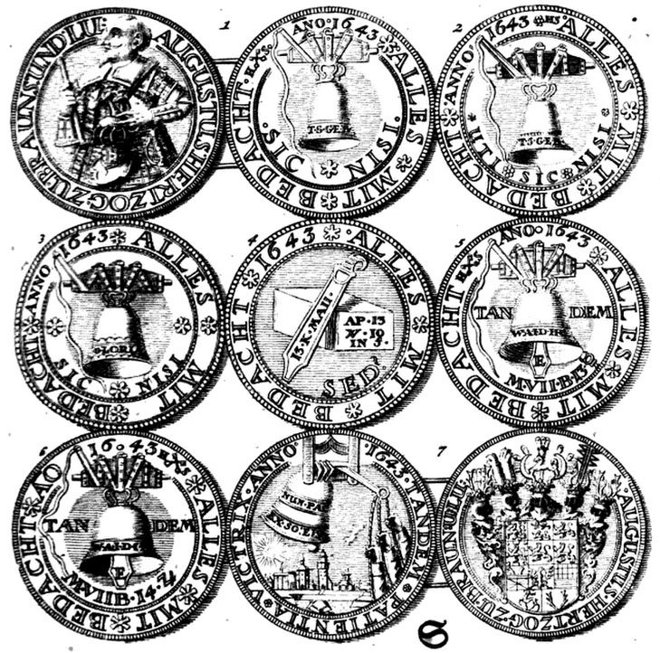 Various Glockentalers 1643